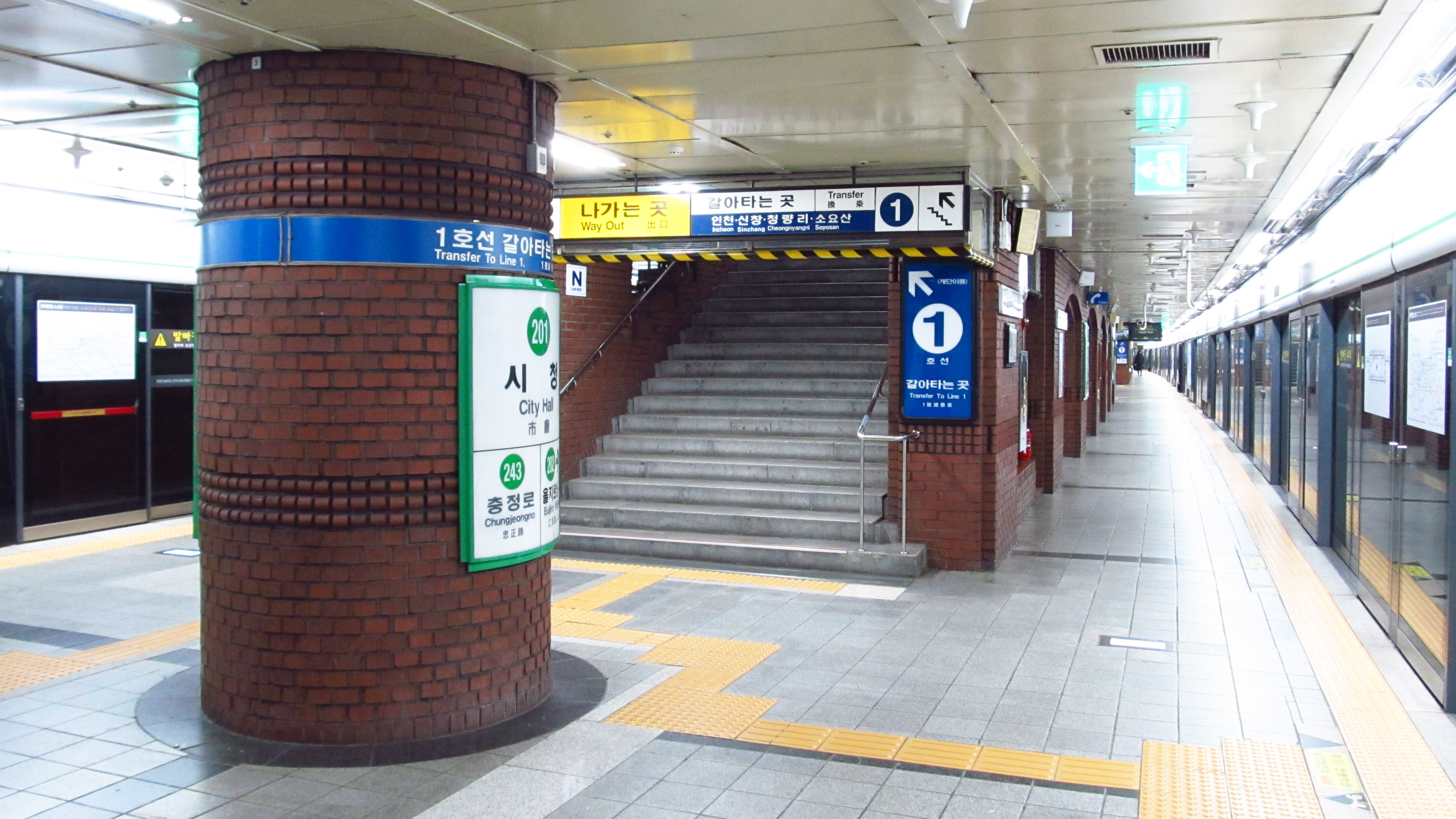 The platform at City Hall Station on Seoul Subway Line 2 in Jung-gu, Seoul, Republic of Korea(South Korea)